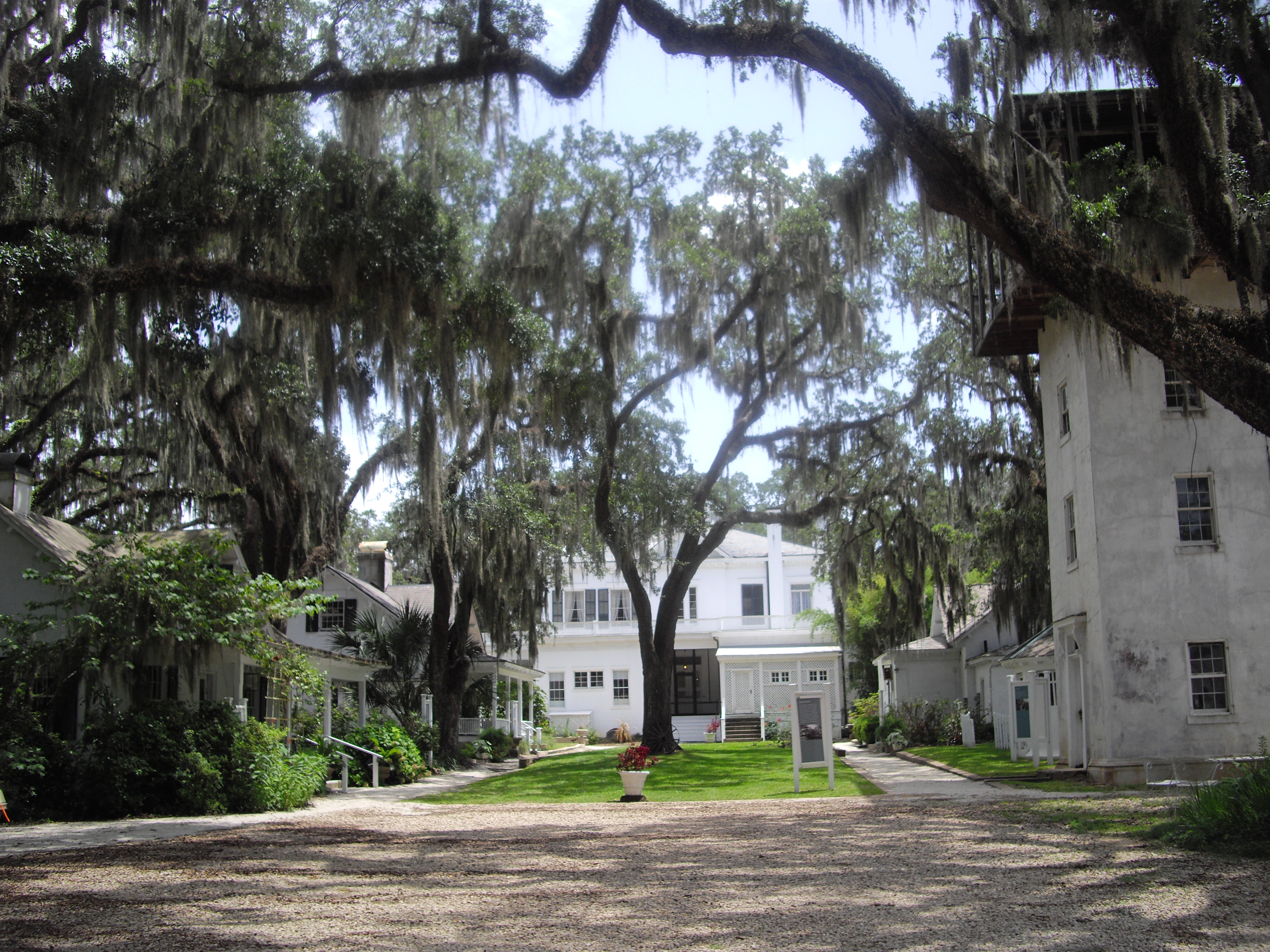 This is the view from the barn.